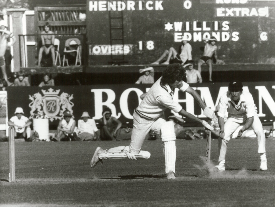 Bob Willis, English cricket player (batting) February 1978, Basin Reserve, Wellington AAQT 6539 W3537 box 16 L7/13/6/251] Archives New Zealand